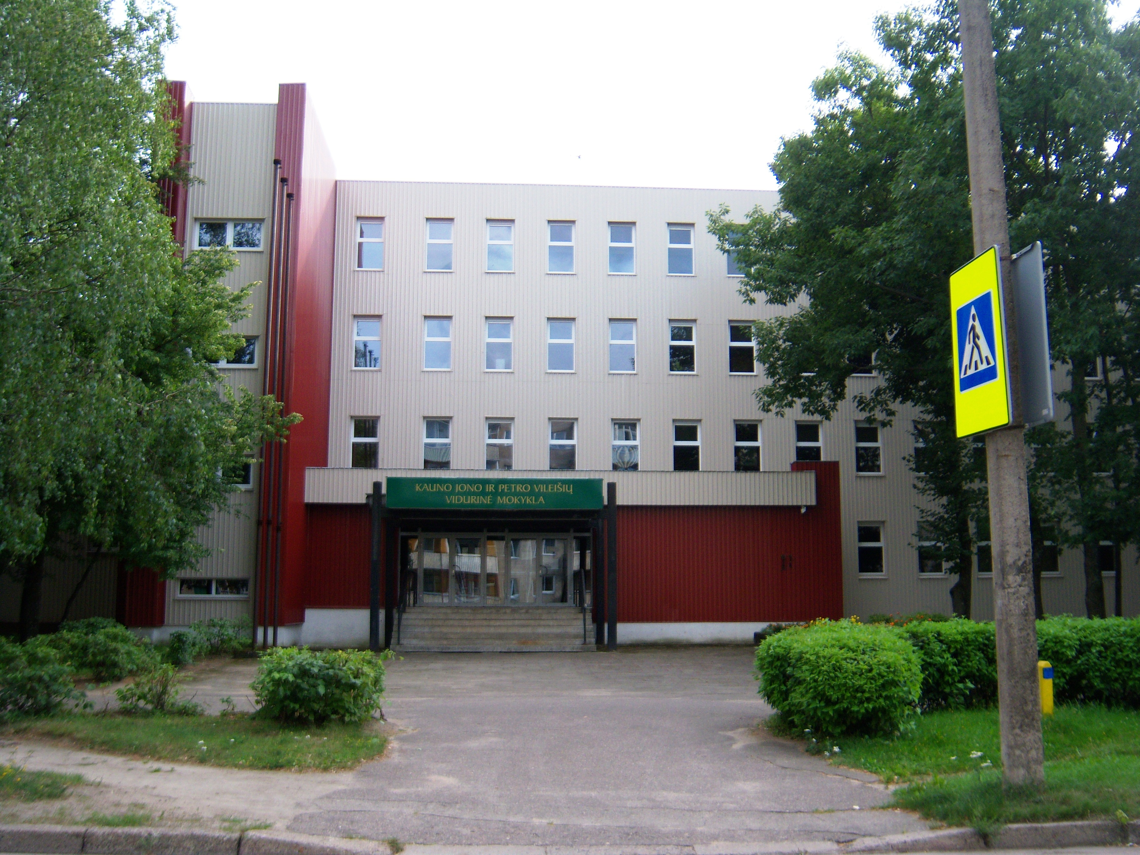 Jono ir Petro Vileišių Secondary School, Kaunas, Lithuania